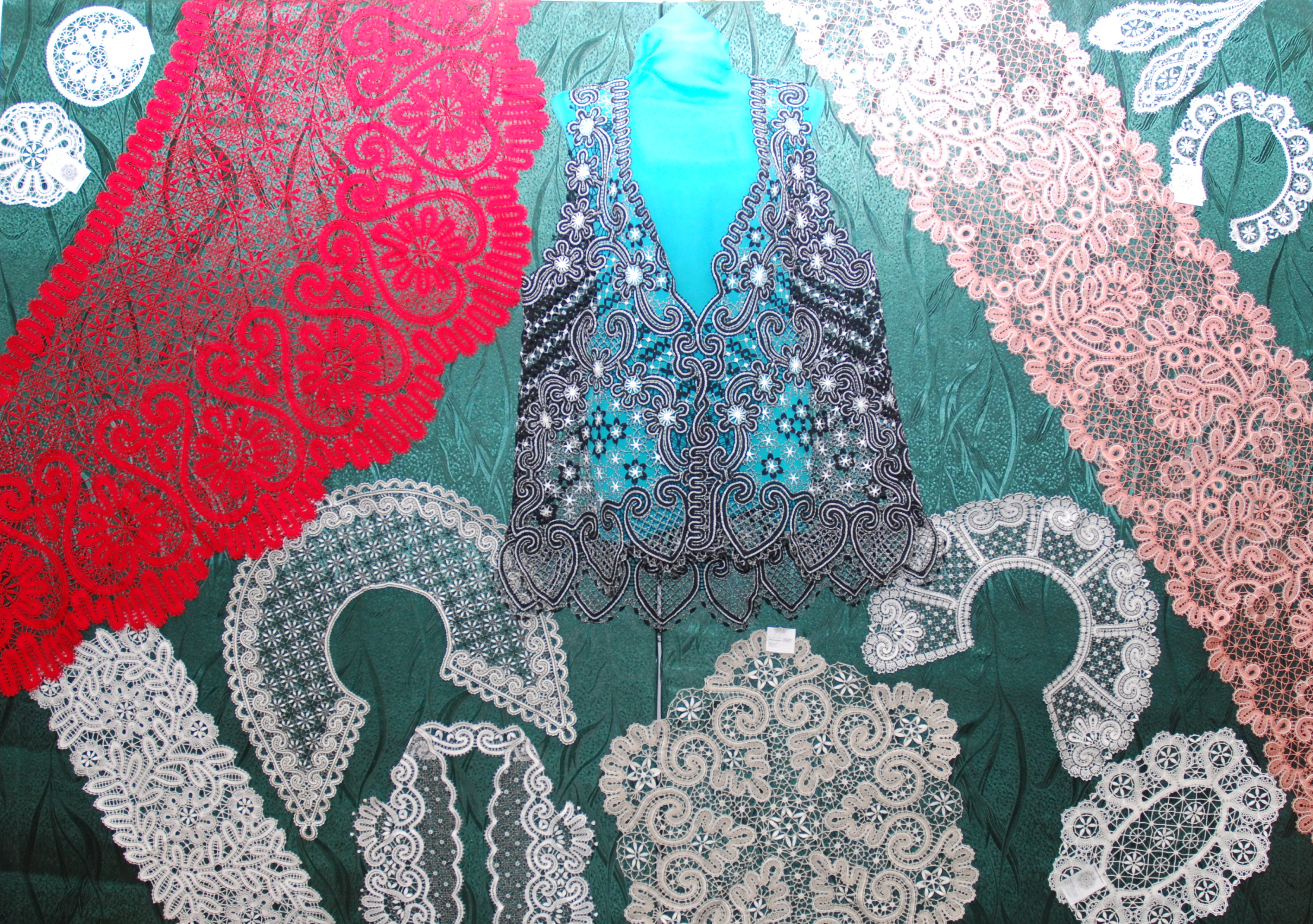 Samples of Kukarka (Vyatka) lace